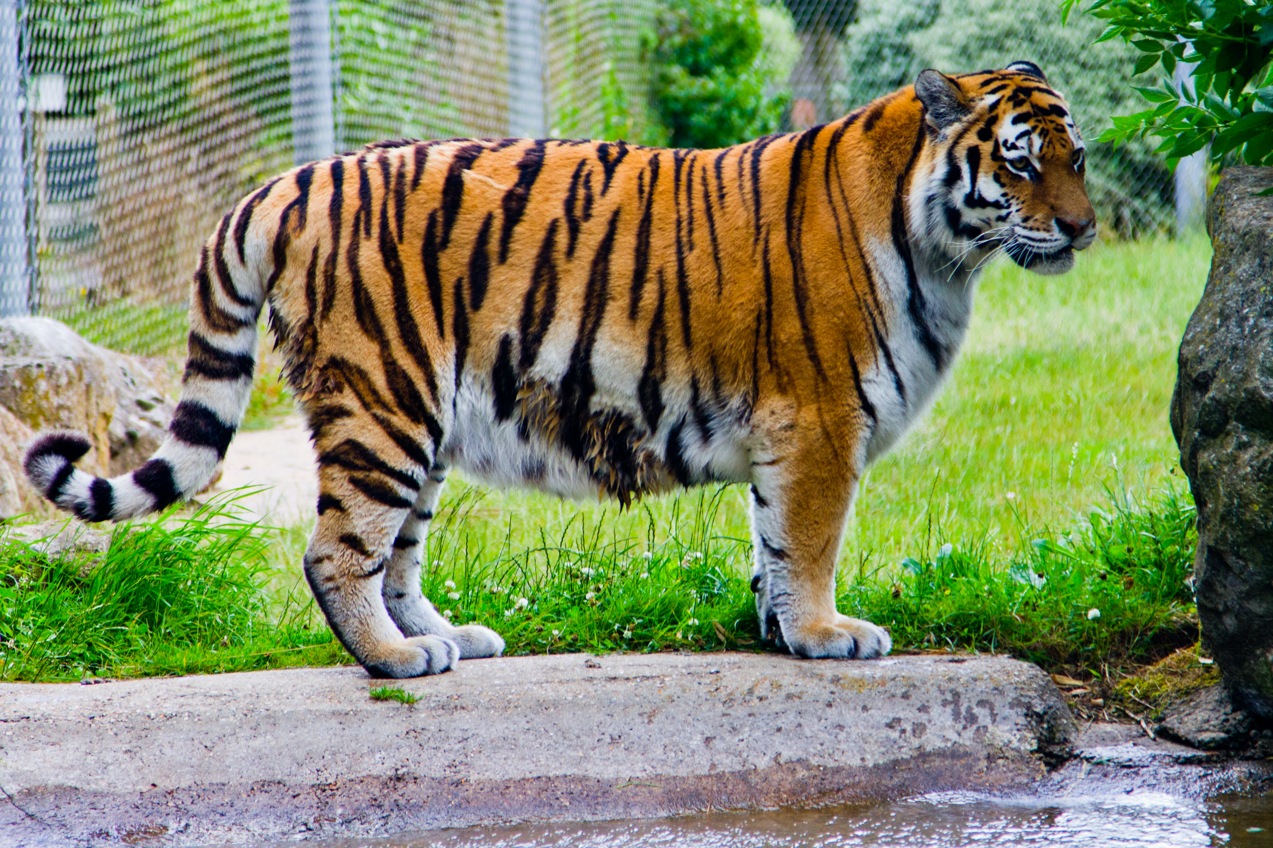 Amur Tiger at Marwell Wildlife